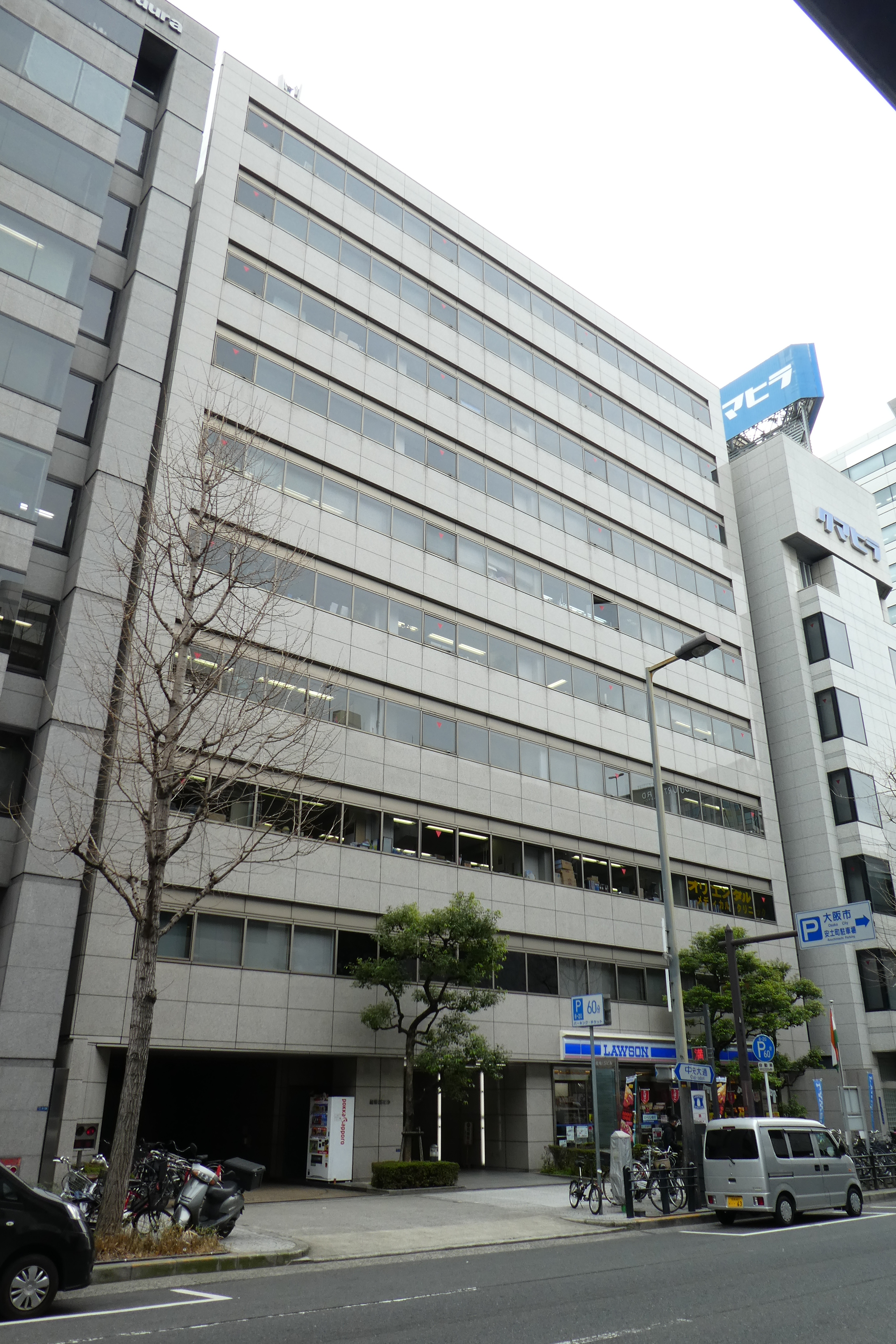 Senba IS Building in Osaka, Japan. It hosts several companies and organizations, which include the Consulate-General of India in Osaka-Kobe.